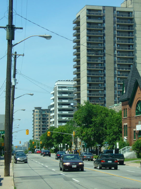 Bronson Avenue, Ottawa. Looking North near Bronson and Somerset St.